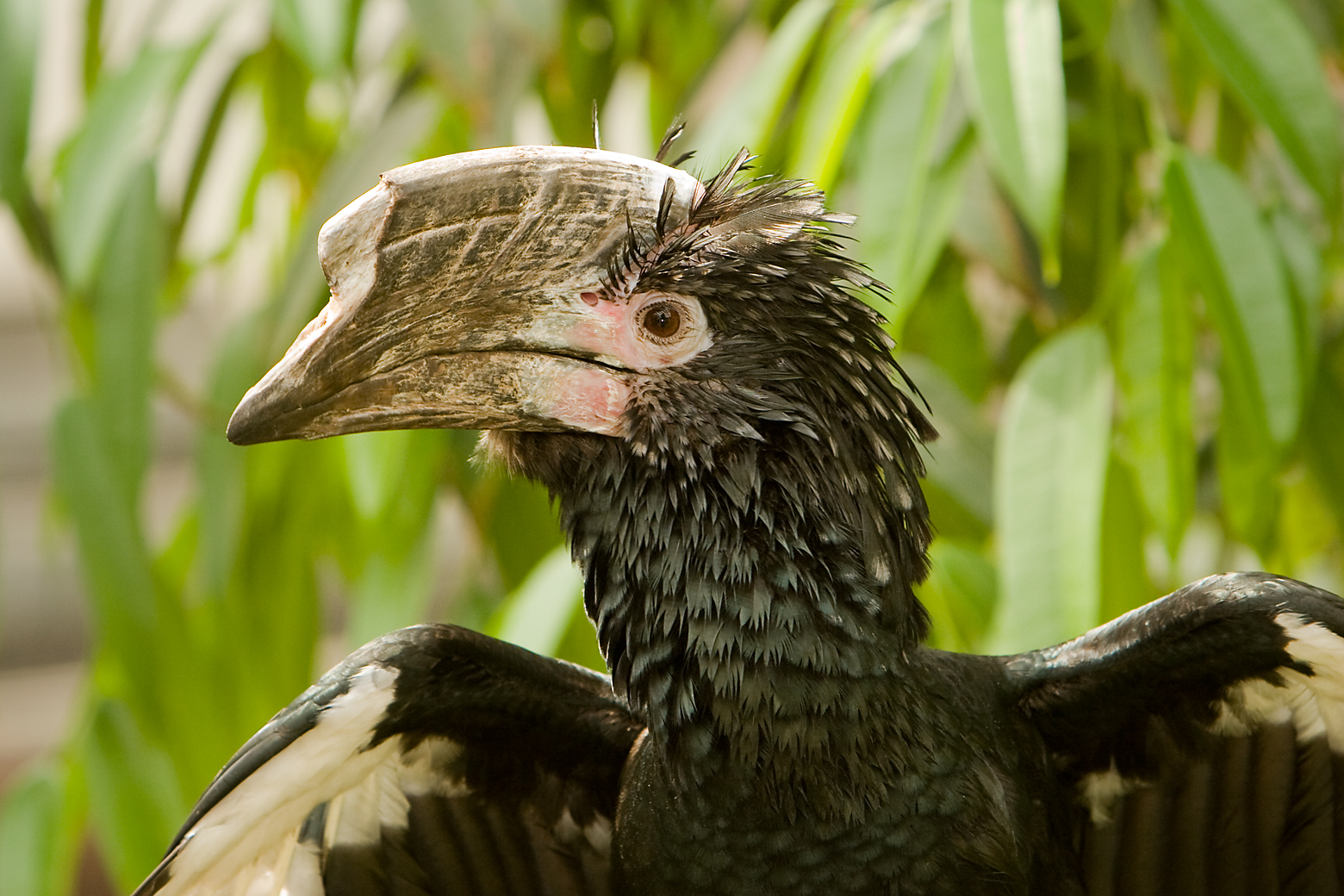 Silvery-cheeked Hornbill (bycanistes brevis)